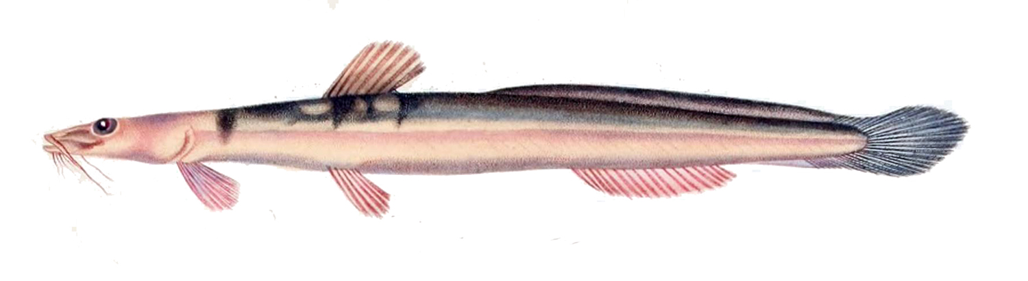 « Pimelodus mustelinus » = Heptapterus mustelinus